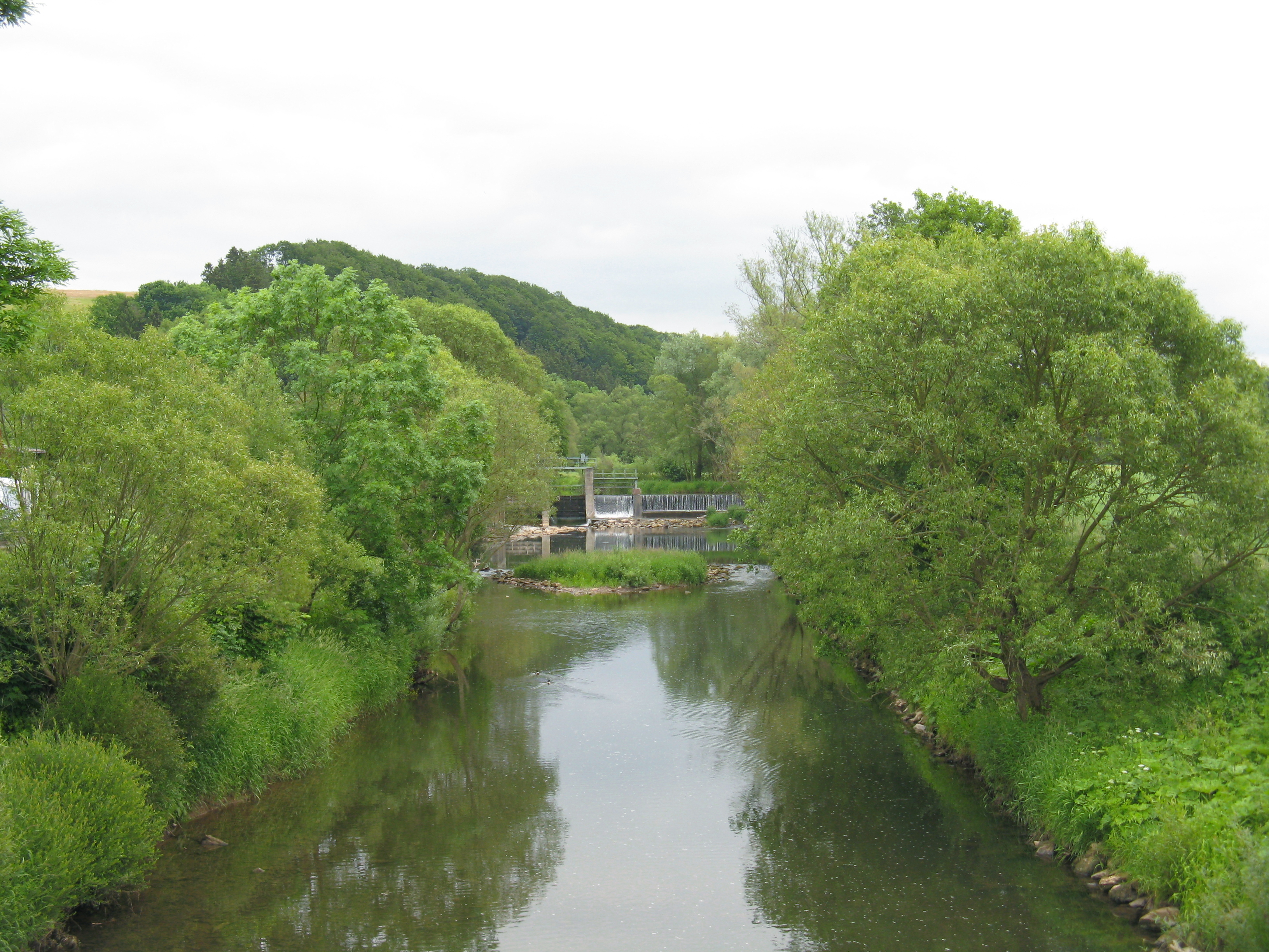 River Rhume and weir in Elvershausen, Germany